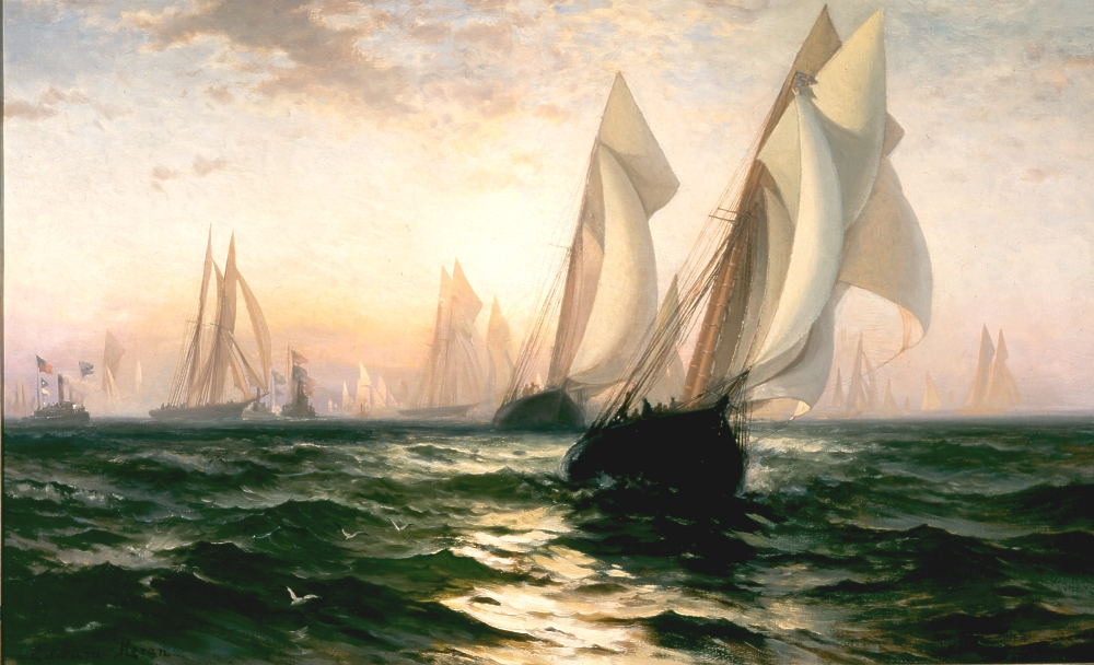 Livonia vs Genesta,Americas Cup, 1871. Oil on canvas, 20 x 30 inches